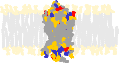 Bovine rhodopsin